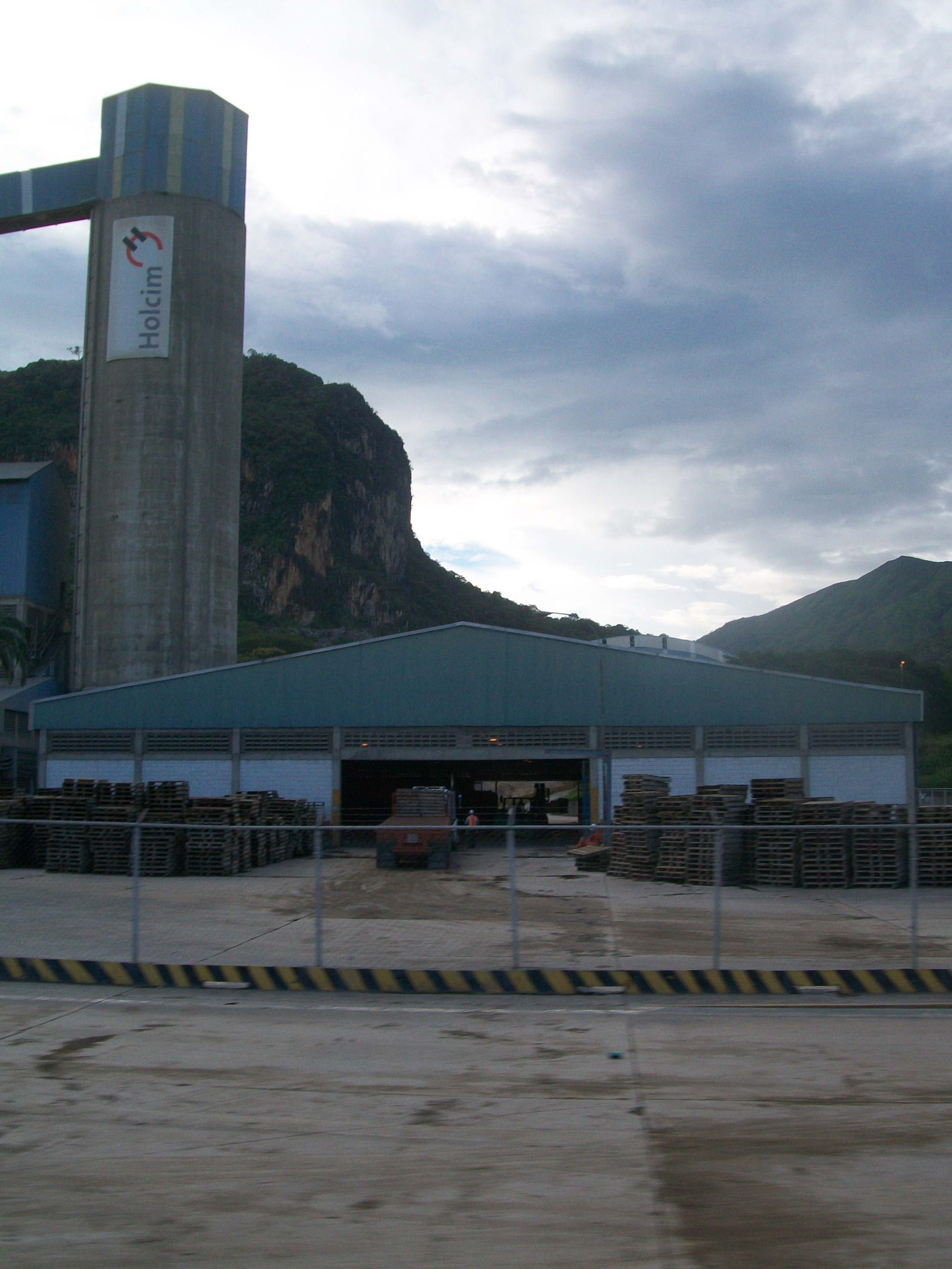 San Sebastian de los Reyes Holcim factory, Venezuela.